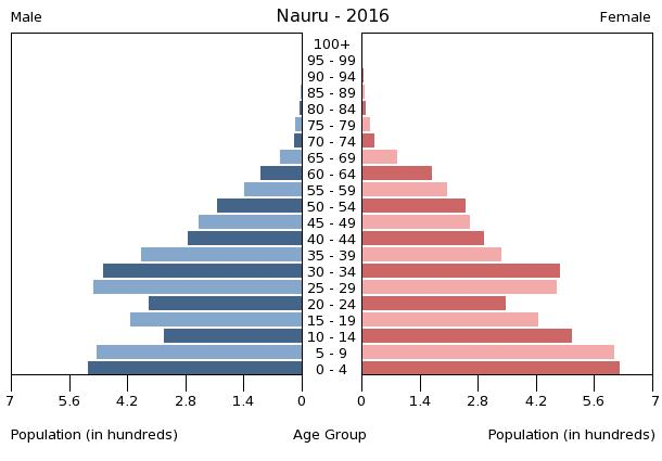 The population pyramid of Nauru illustrates the age and sex structure of population and may provide insights about political and social stability, as well as economic development. The population is distributed along the horizontal axis, with males shown on the left and females on the right. The male and female populations are broken down into 5-year age groups represented as horizontal bars along the vertical axis, with the youngest age groups at the bottom and the oldest at the top. The shape of the population pyramid gradually evolves over time based on fertility, mortality, and international migration trends.